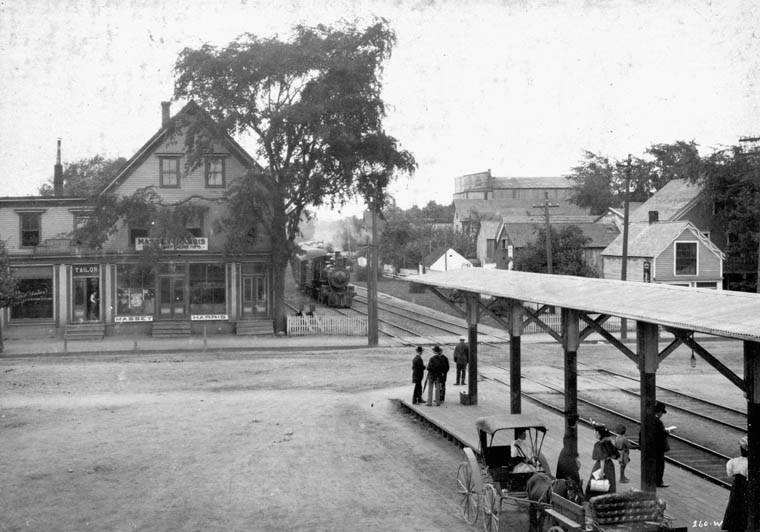 Kentville Railway Station platform and Aberdeen Street with Dominion Atlantic Railway train approaching, circa 1910. Also shown is the T. L. Dodge hardware store, the local dealer for Massey Harris farm machinery. Kentville, Nova Scotia, Canada.